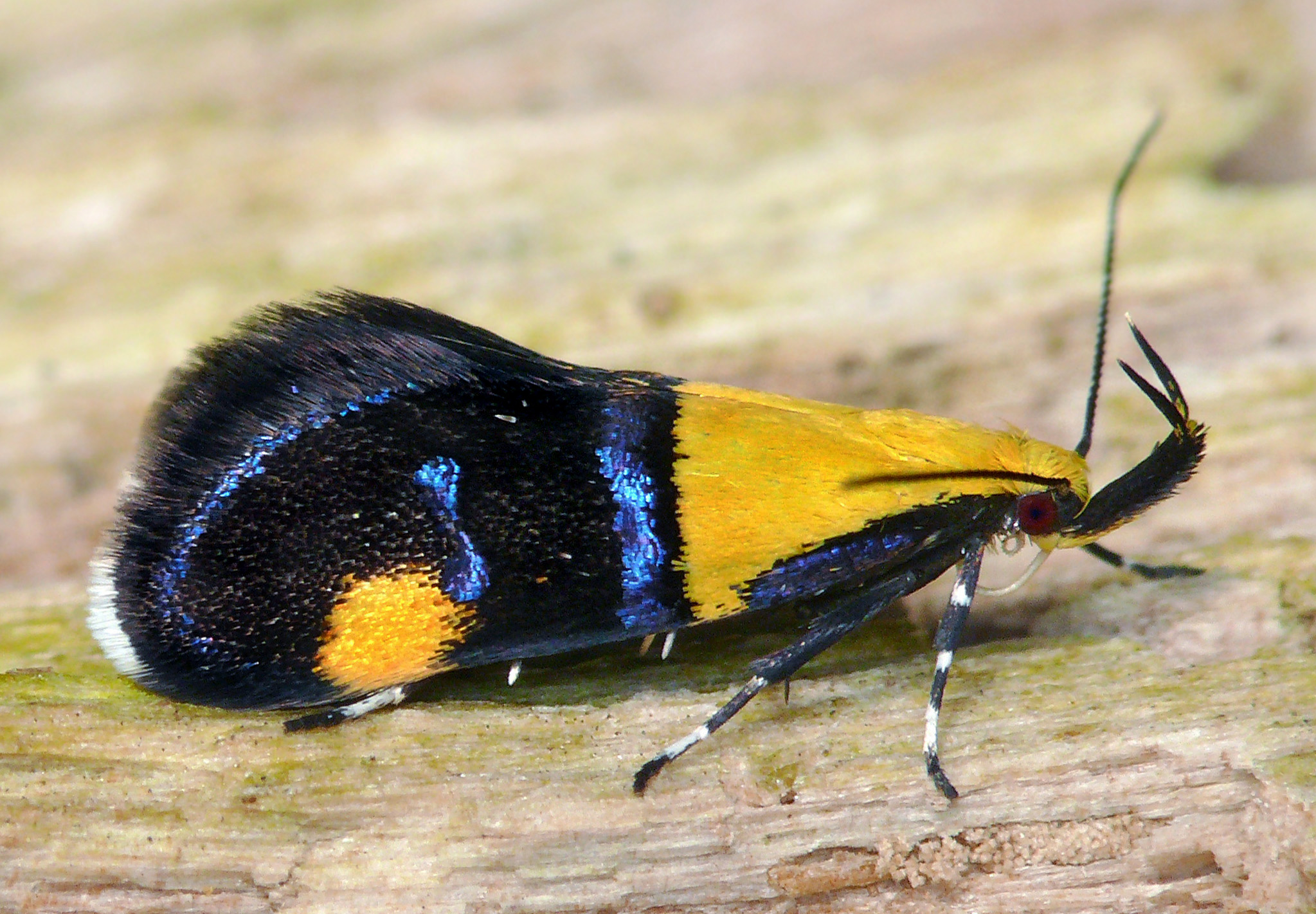 Wyre Forest, Shropshire. One of the 'speciality' rare moths of Wyre. The larvae feed on dead wood.